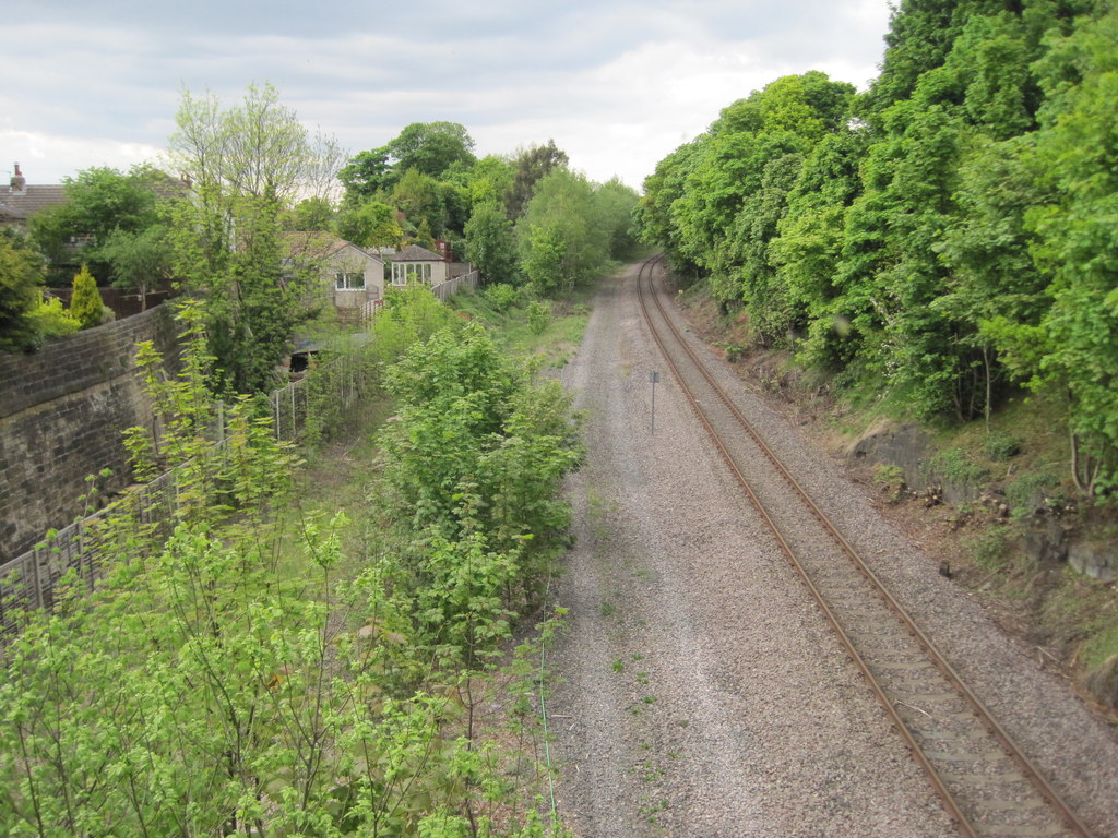 Sandal & Walton railway station (site), YorkshireOpened in 1870 by the Midland Railway on the line from Rotherham to Leeds, this station closed in 1961. View north from Shay Lane bridge towards Oakenshaw and Leeds. There used to be four tracks here and the station was built around the left hand pair.